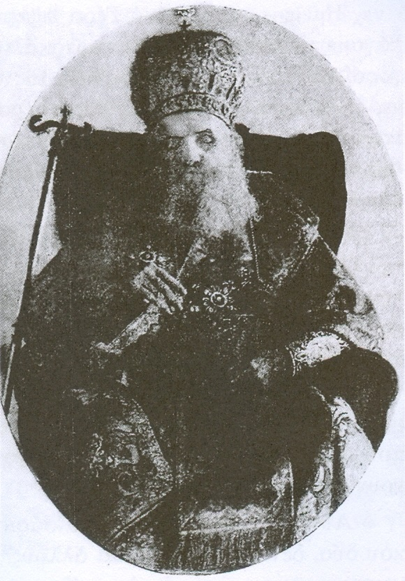 Basil of Smyrna Old